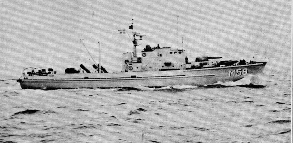 Swedish Minesweeper M58 "Spårö"